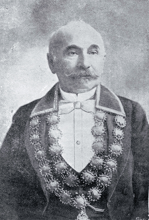 Charles Louisson (1842-1942)